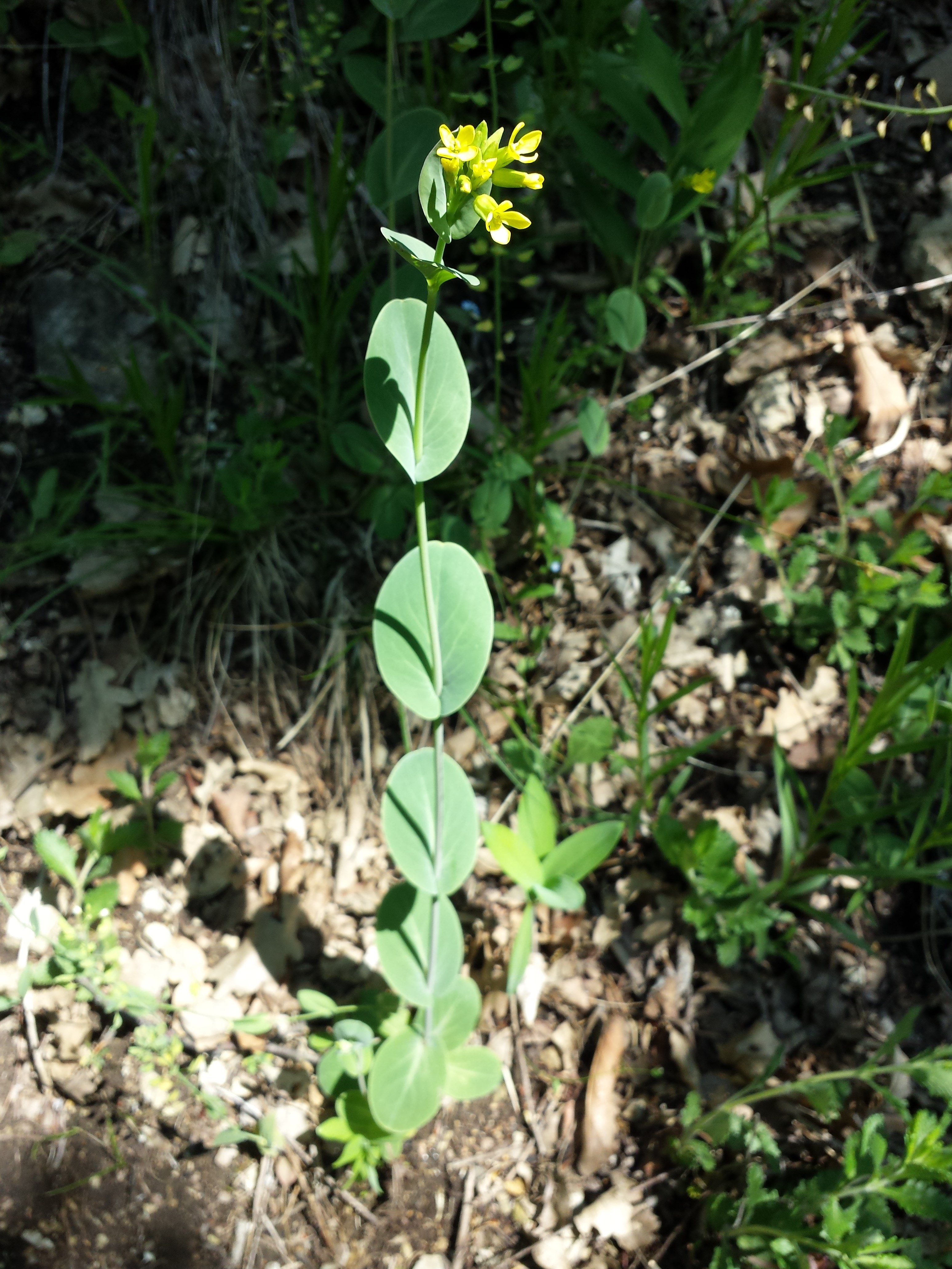 Habitus Taxonym: Conringia austriaca ss Fischer et al. EfÖLS 2008 ISBN 978-3-85474-187-9 Location: near Gumpoldskirchen, district Mödling, Lower Austria - ca. 300 m a.s.l. Habitat: xerotherme wood of Quercus pubescens